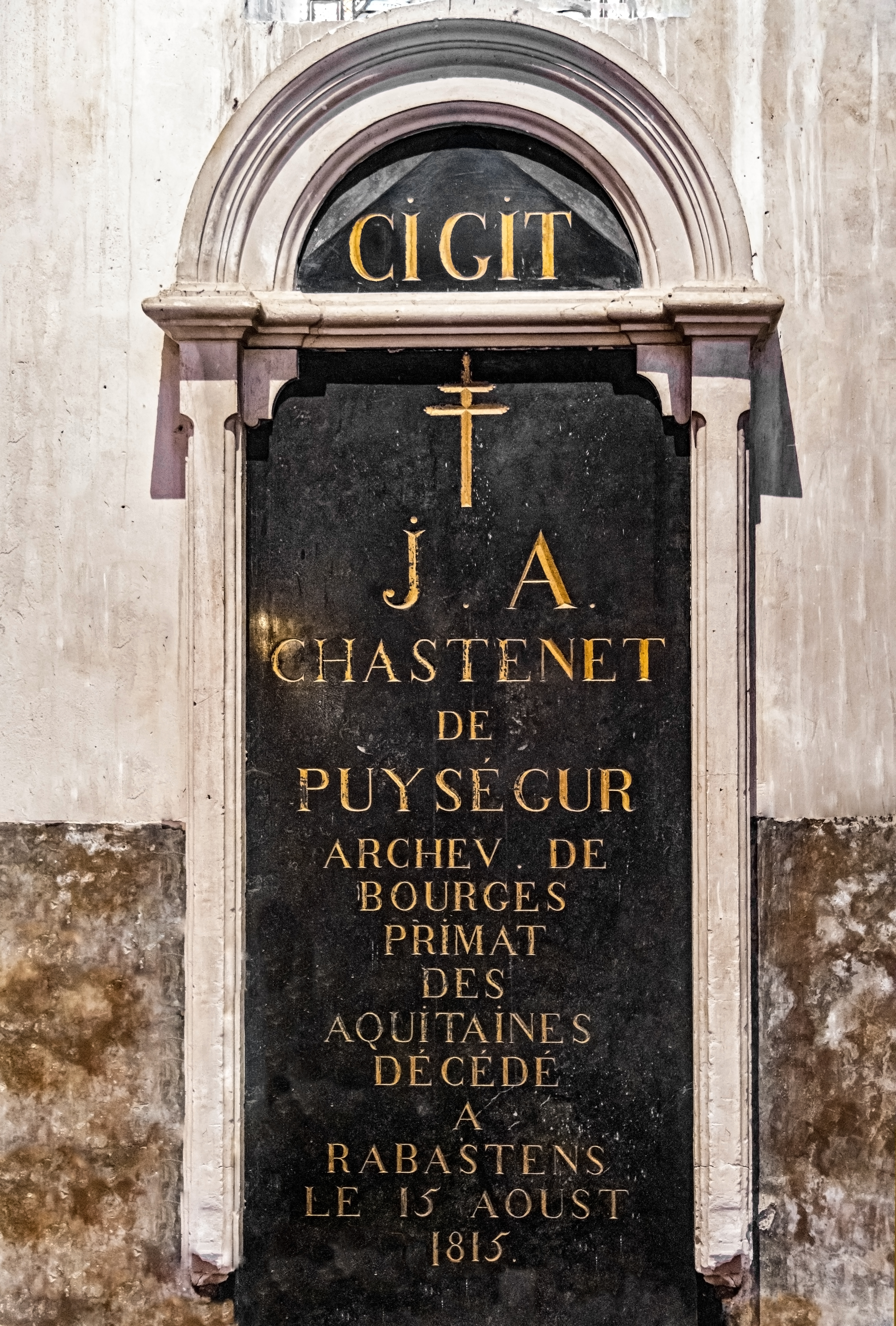 Church Notre-Dame-du-Bourg Rabastens in the Tarn department - Tomb of Jean Auguste de Chastenet de Puységur